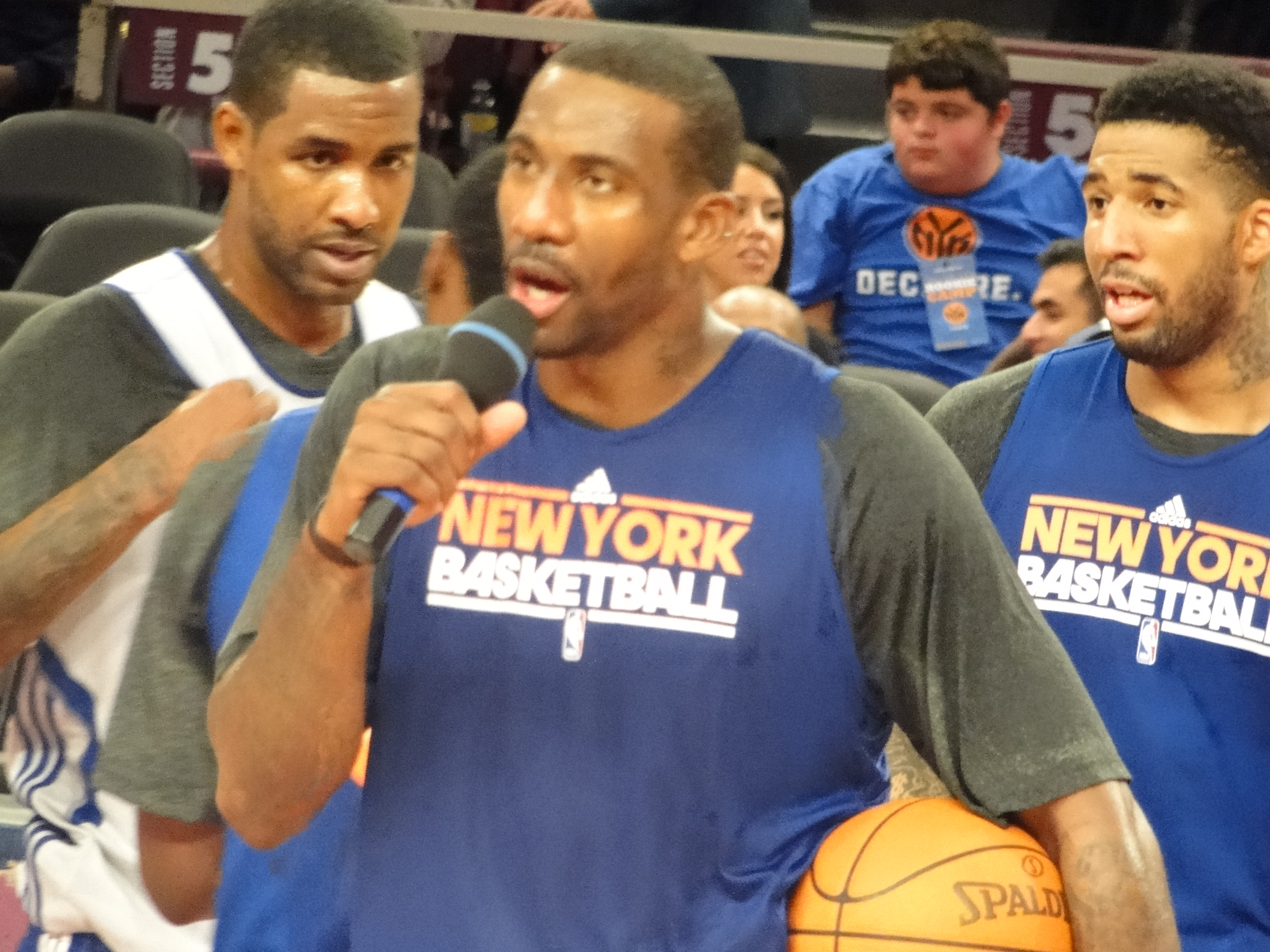 Amar'e Stoudemire of the New York Knicks addresses fans at the team's open practice session in October 2010.